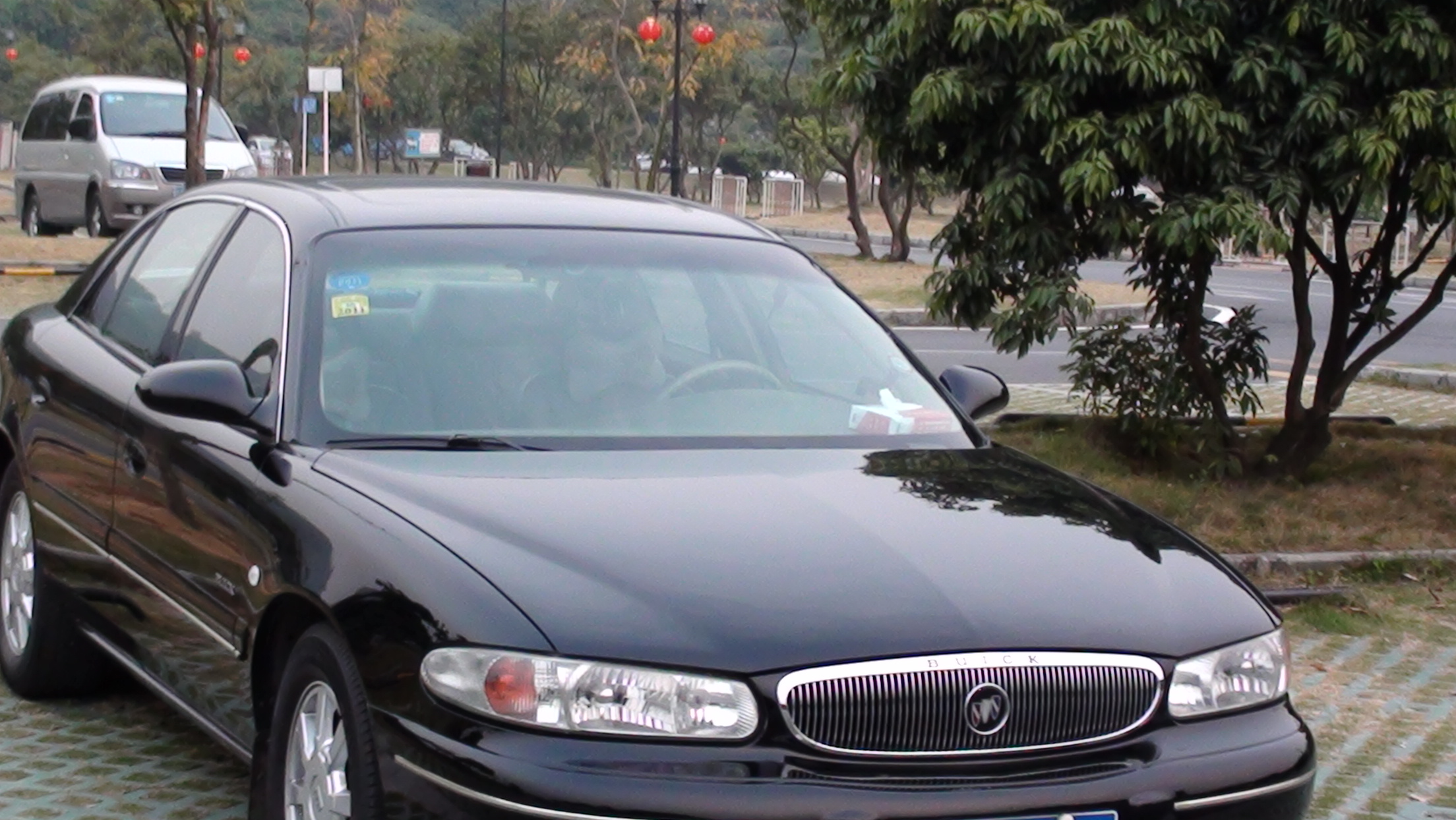 Buick car made in Shanghai GM,China